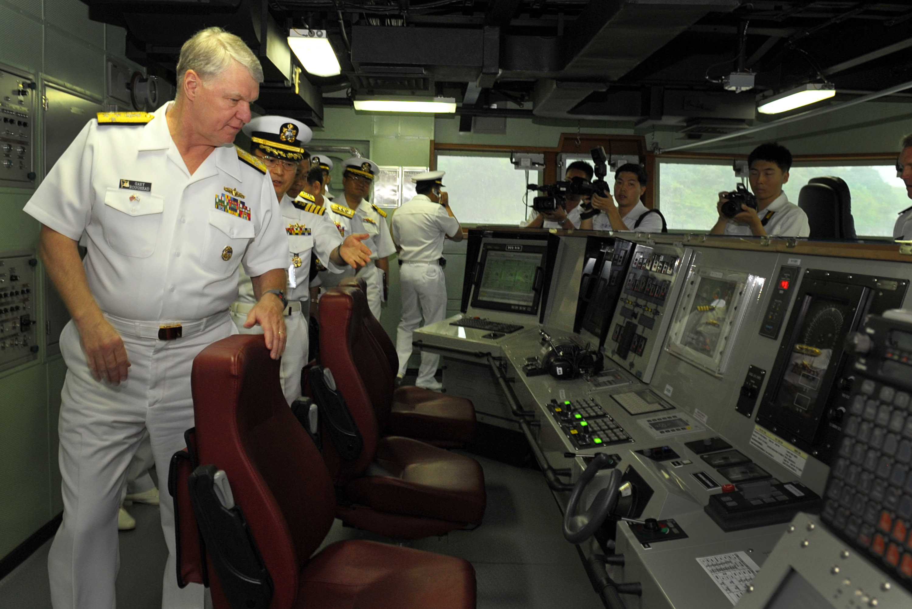 BUSAN, Korea (July 7, 2009) Chief of Naval Operations (CNO) Adm. Gary Roughead tours the bridge of the Republic of Korea Aegis destroyer Sejong the Great (KDX 991) during a visit to Busan, Korea. Roughead is on an official visit to the U.S. 7th Fleet area of responsibility to strengthen global maritime partnerships. (U.S. Navy photo by Mass Communication Specialist 1st Class Tiffini Jones Vanderwyst/Released)